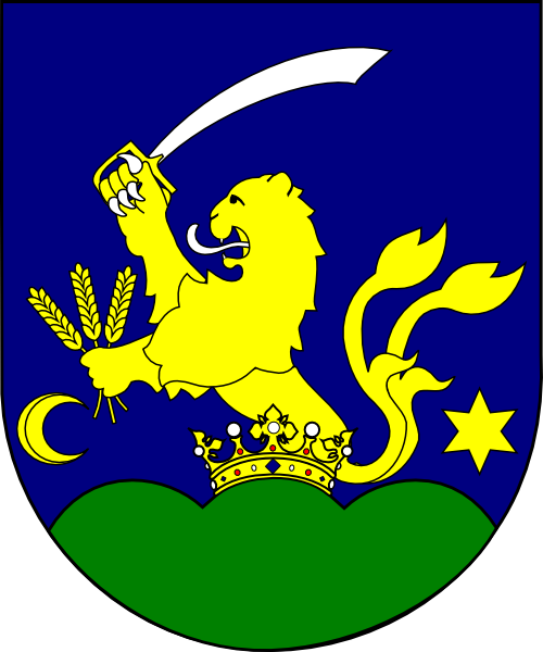 Coat of arms (shield only) of Balázs Jaklin, bishop of Nitra, Slovakia (1691 - 1695). Based on Siebmacher: Ungarn, p. 264, Tab. 201.